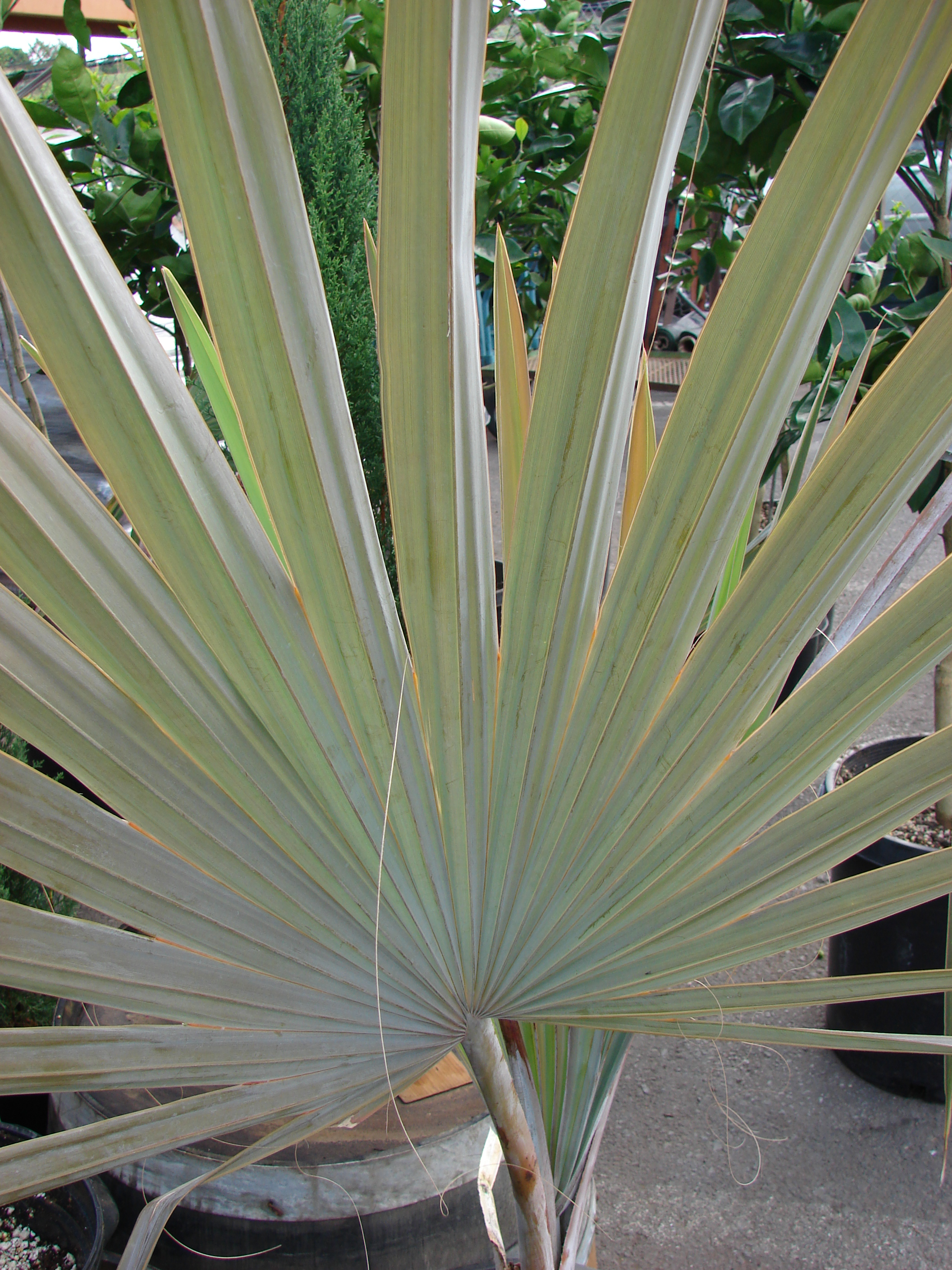 Bismarckia nobilis (leaf). Location: Maui, Kula Ace Hardware and Nursery